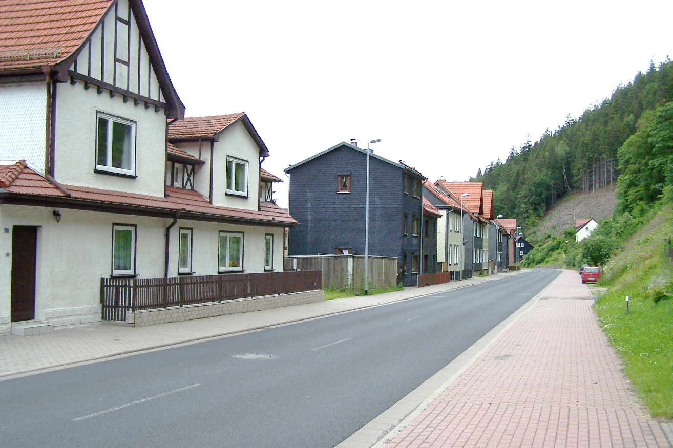 In Luisenthal, Schwarzwald, Hauptstraße ("High street").